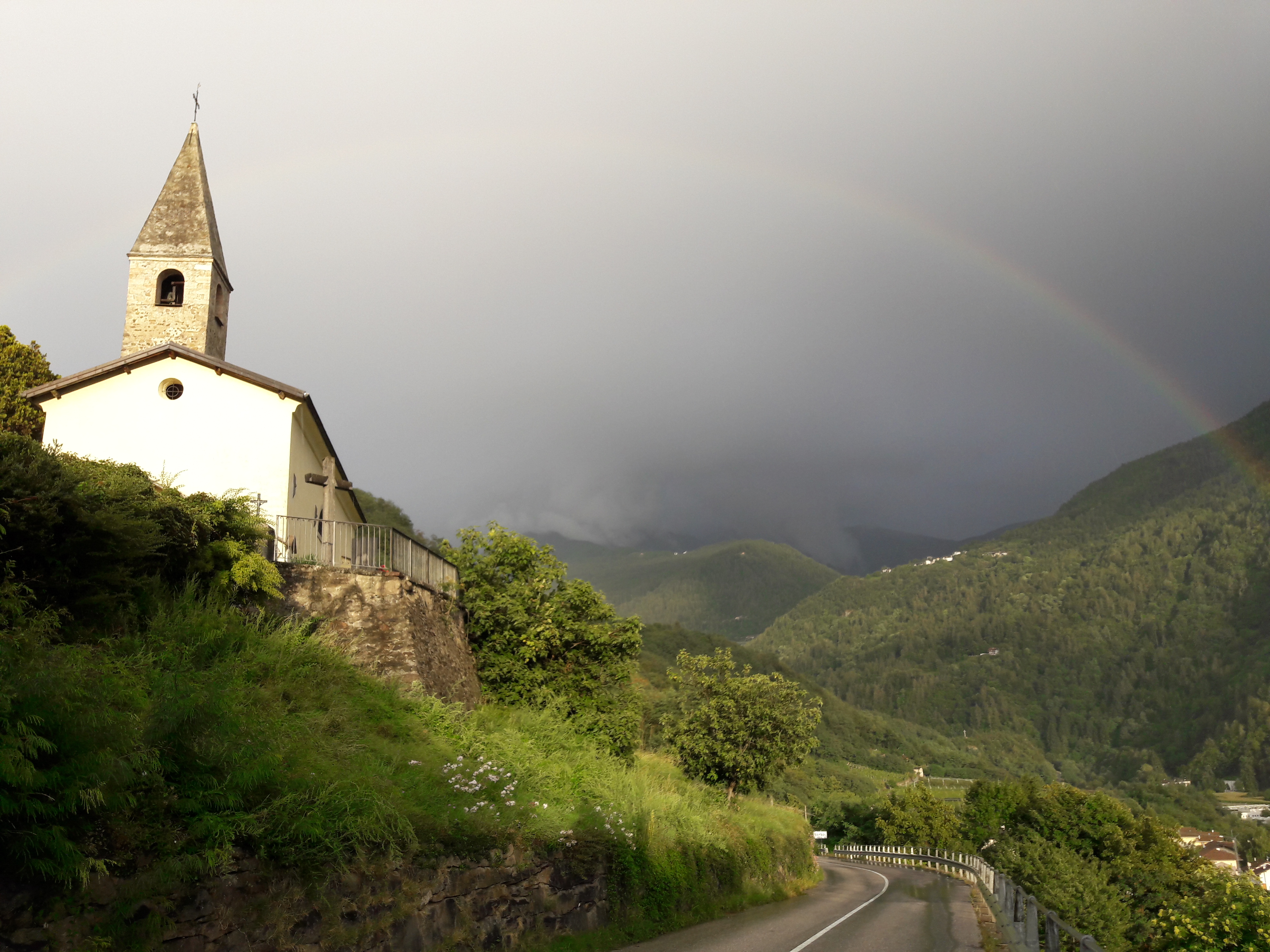 This is a photo of a monument which is part of cultural heritage of Italy.